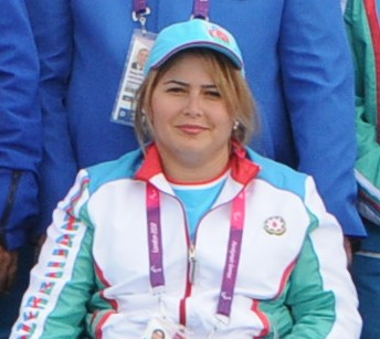 Zinyat Veliyeva at the 2012 Summer Paralympics